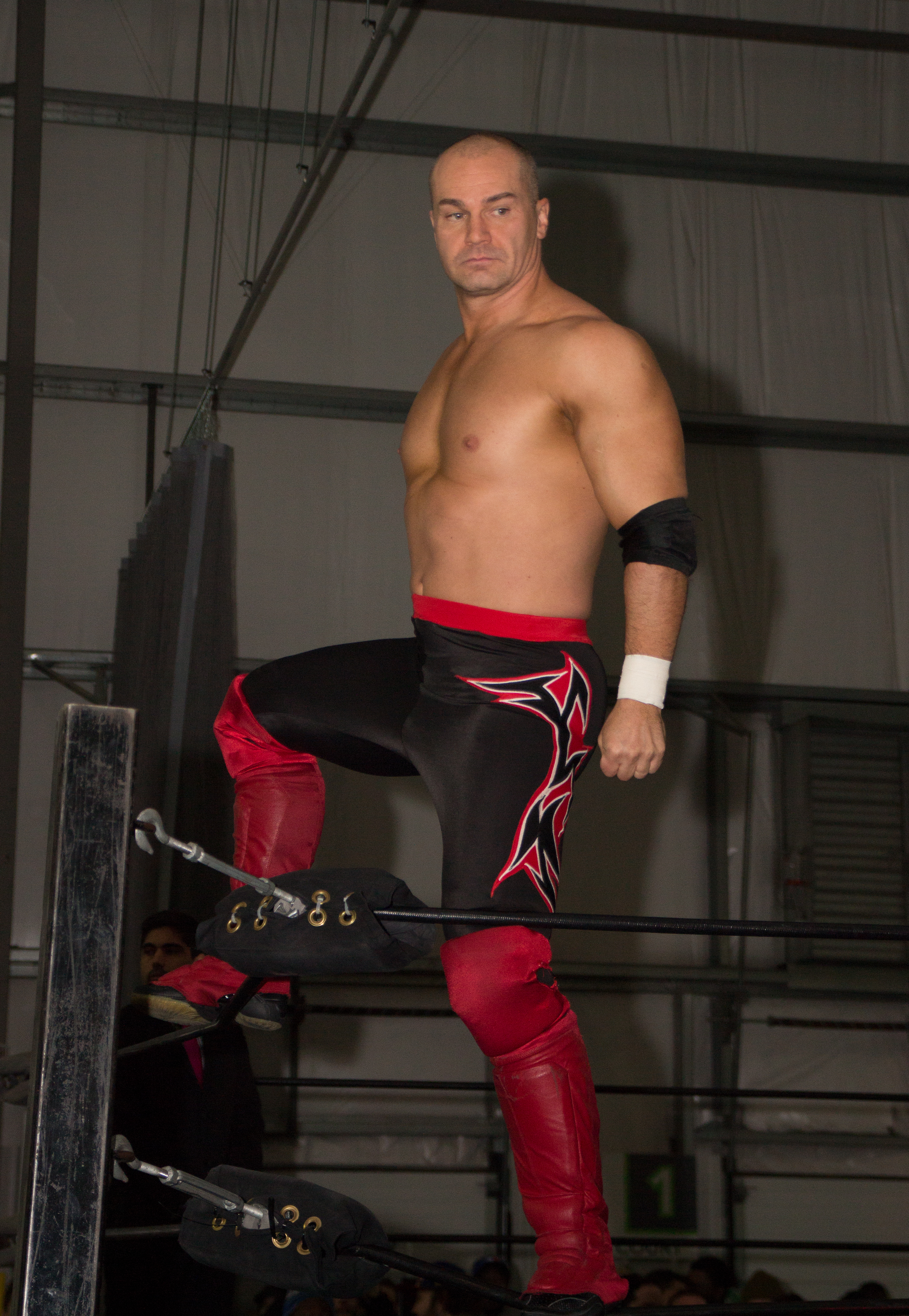 Lance Storm in the ring at Smash Wrestling's Tapped Out in Mississauaga, ON